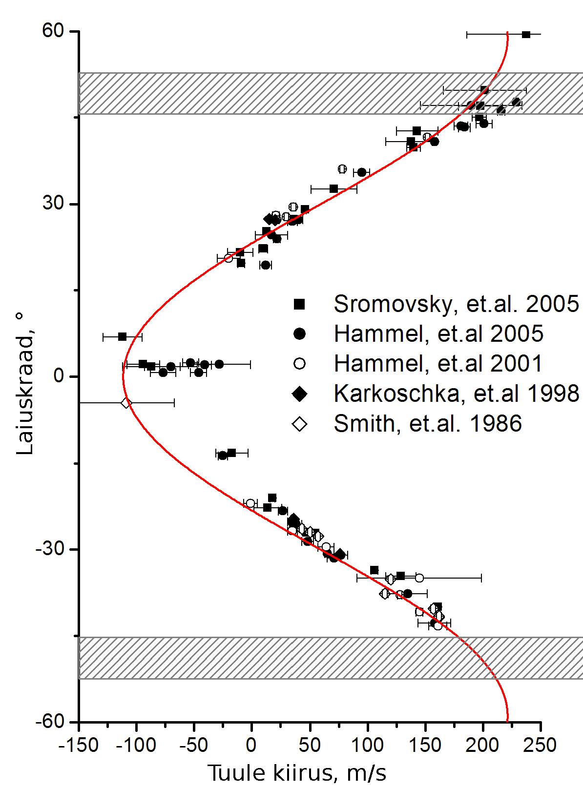 Transletion to Estonian from English. The figure shows zonal winds on Uranus as listed in. (Shaded areas show southern collar and its future northern counterpart. The red curve is a symmetrical fit from Sromovsky et.al 2005.) Hammel, H.B.; Rages, K.; Lockwood, G.W.; et.al. (2001). "New Measurements of the Winds of Uranus". Icarus 153: 229-235. (Table II), in the figure Smith et.al. 1986, Karkoschka et.al.1998, Hammel et.al.2001. Hammel, H.B.; de Pater, I.; Gibbard, S.; et.al. (2005). "Uranus in 2003: Zonal winds, banded structure, and discrete features" (pdf). Icarus 175: 534-545. (Table 3), in the figure Hammel et.al. 2005) Sromovsky, L.A.; Fry, P.M. (2005). "Dynamics of cloud features on Uranus". Icarus 179: 459-483. (Table 7), in the figure Sromovsky et.al 2005